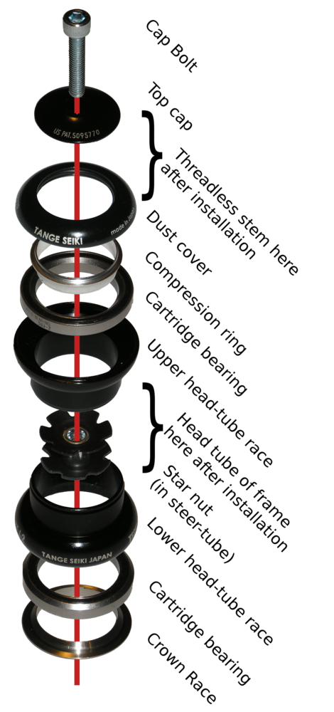 An exploded view of a 1 1/8" cartridge bearing threadless bicycle headset, with labels in English.